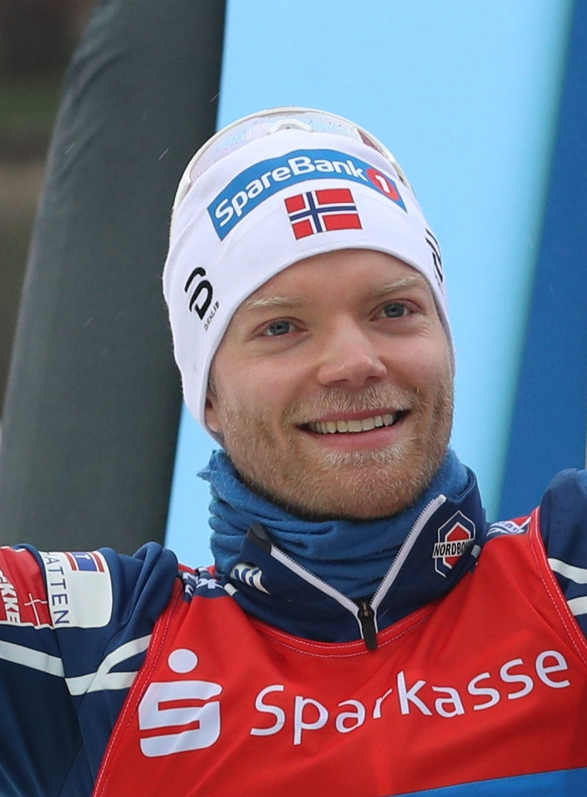 Teamsprint Victory Ceremonies at the FIS Cross-Country World Cup Dresden 2019 (6 x 1.6 km Team Sprint Free). Picture shows Eirik Brandsdal (NOR).